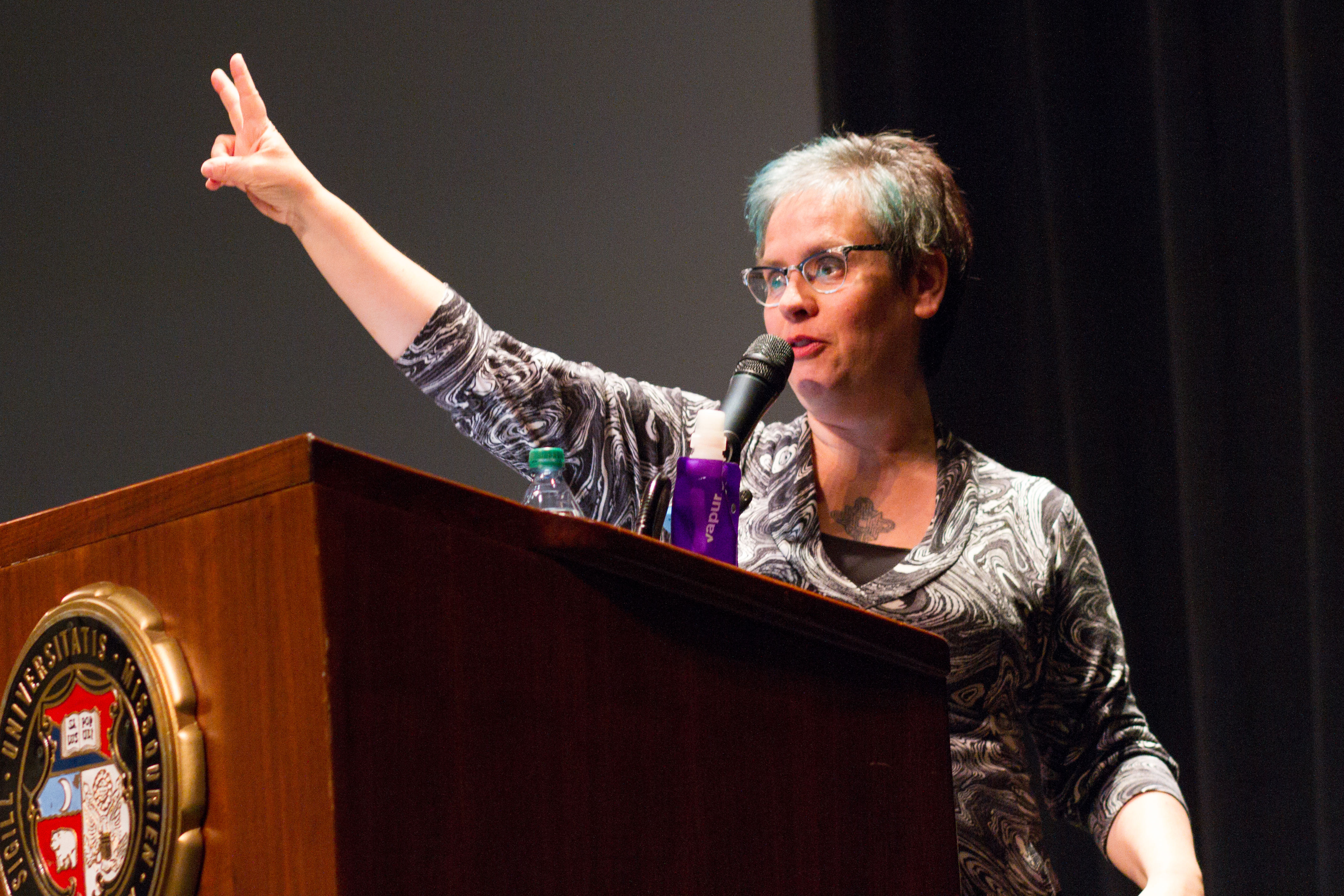 Greta Christina at SASHAcon at the University of Missouri in 2014